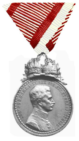 Signum Laudis with war-ribbon